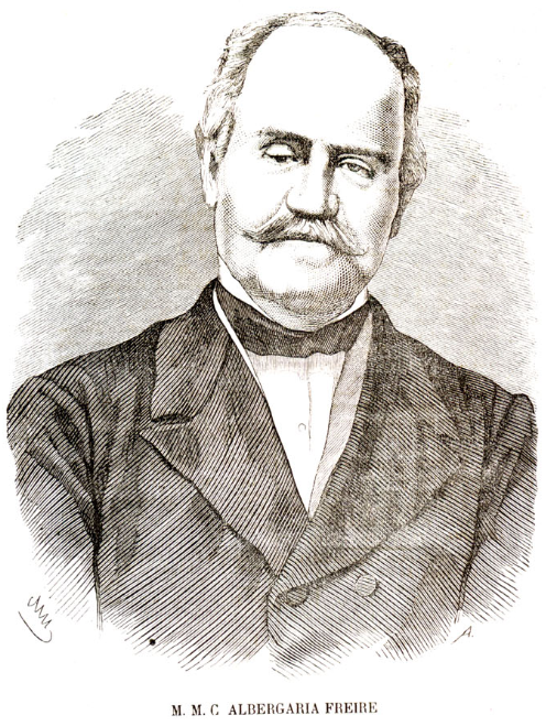 Manuel Maria Coutinho de Albergaria Freire (1799-1875), Portuguese politician.